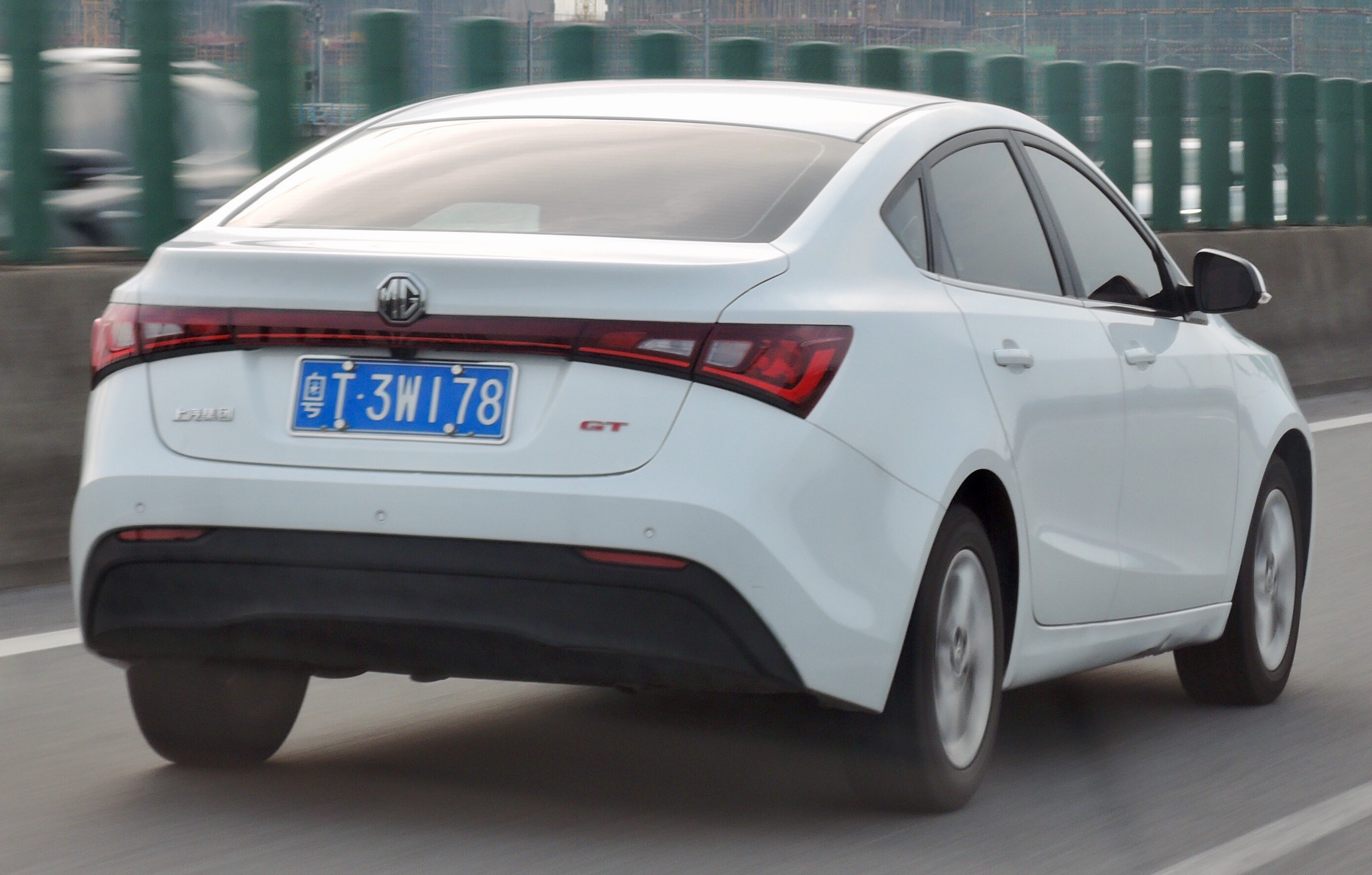 A 2015 MG GT taken in S43 Provincial-Level Road near Dailiang, Guangdong province, China. 中文（中国大陆）: 一辆2015年的名爵GT，摄于中国广东省S43省道近大良。